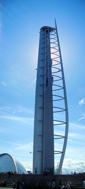 The Glasgow Tower